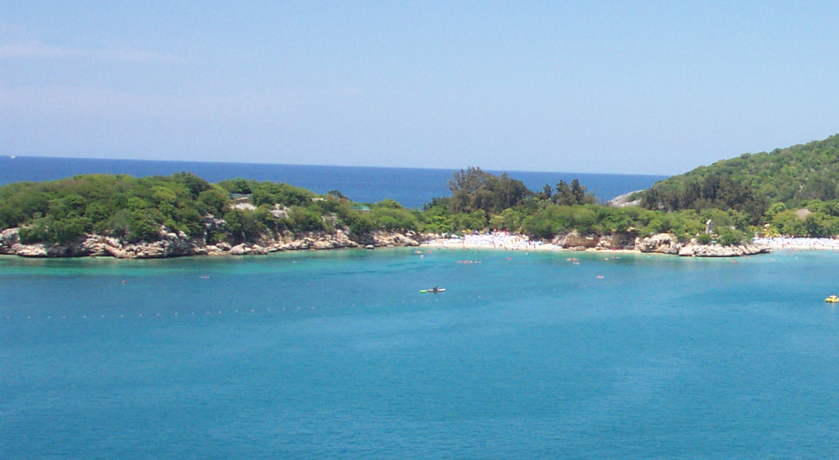 The cruise destination "Labadee", seen from a cabin on the Royal Caribbean ship "Voyager of the Seas" in August 2002.